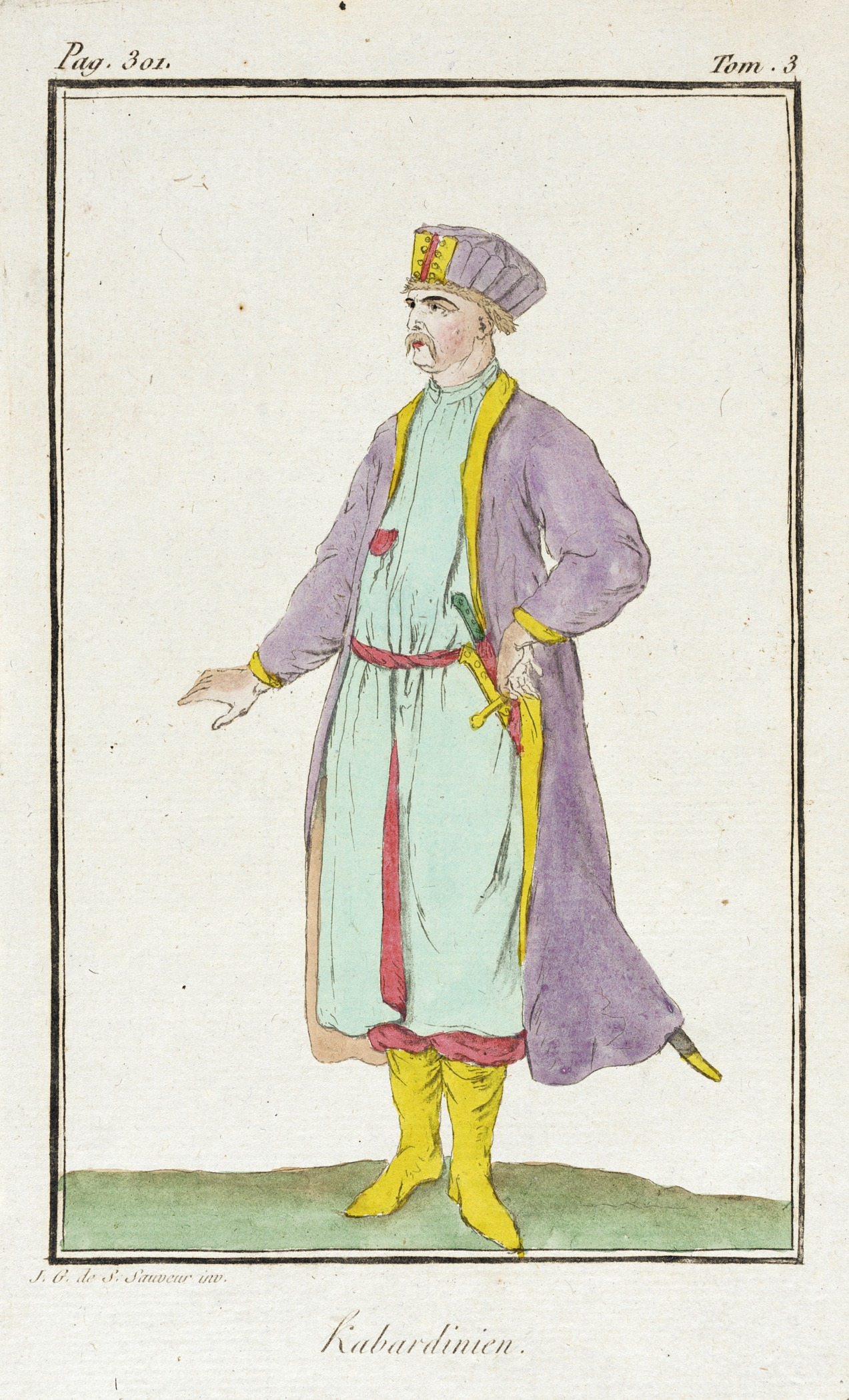 France, late 18th to early 19th century Drawings Hand-colored engraving Costume Council Fund (M.87.231.42) Costume and Textiles